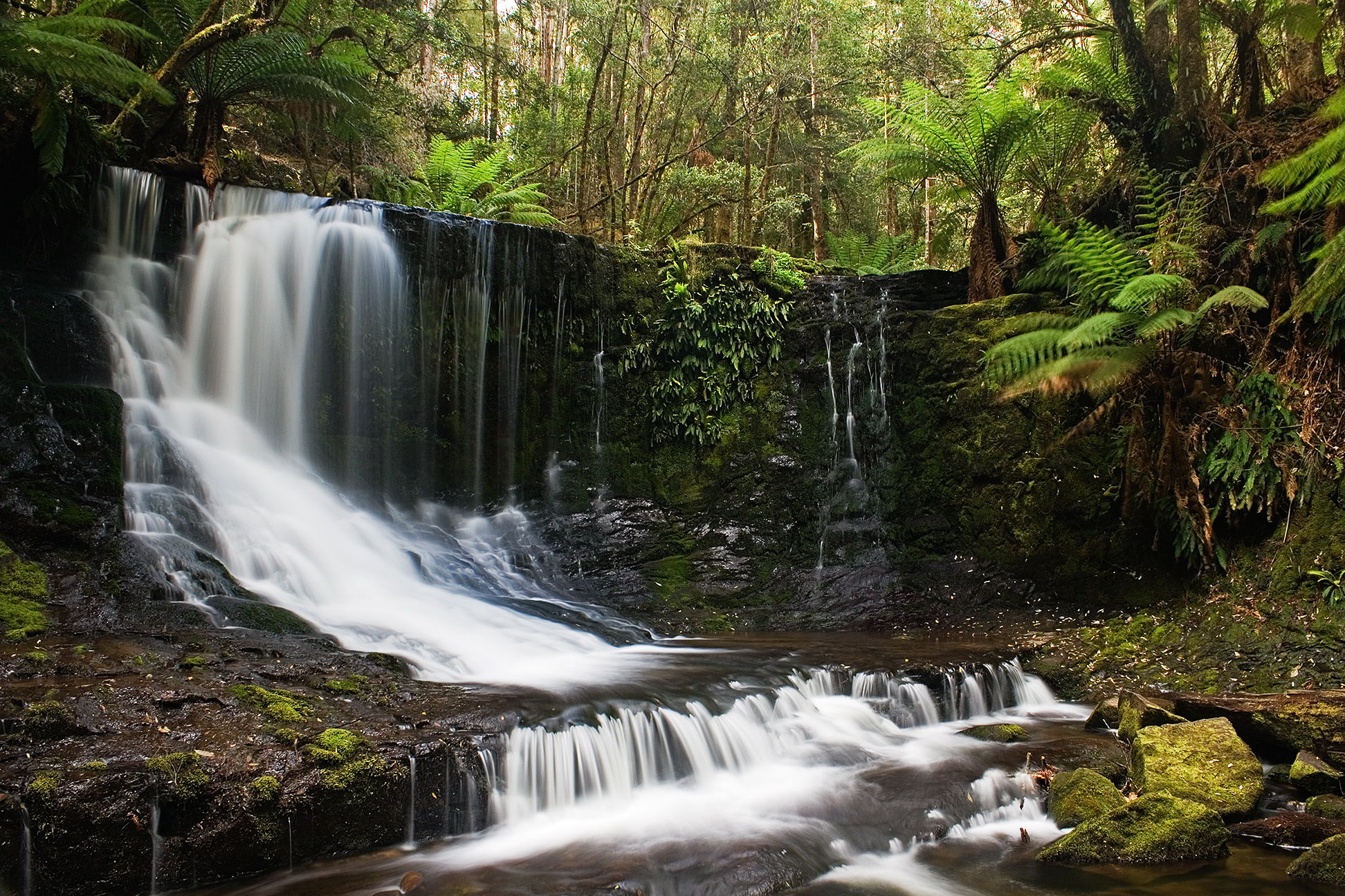 Horseshoe Falls in Mt Field National Park, Tasmania, Australia Camera data Camera Canon EOS 400D Lens Canon EF-S 18-55mm f3.5-5.6 IS Filter 4x ND filter, Polariser Focal length 18 mm Aperture f/9 Exposure time 4 s Sensivity ISO 100